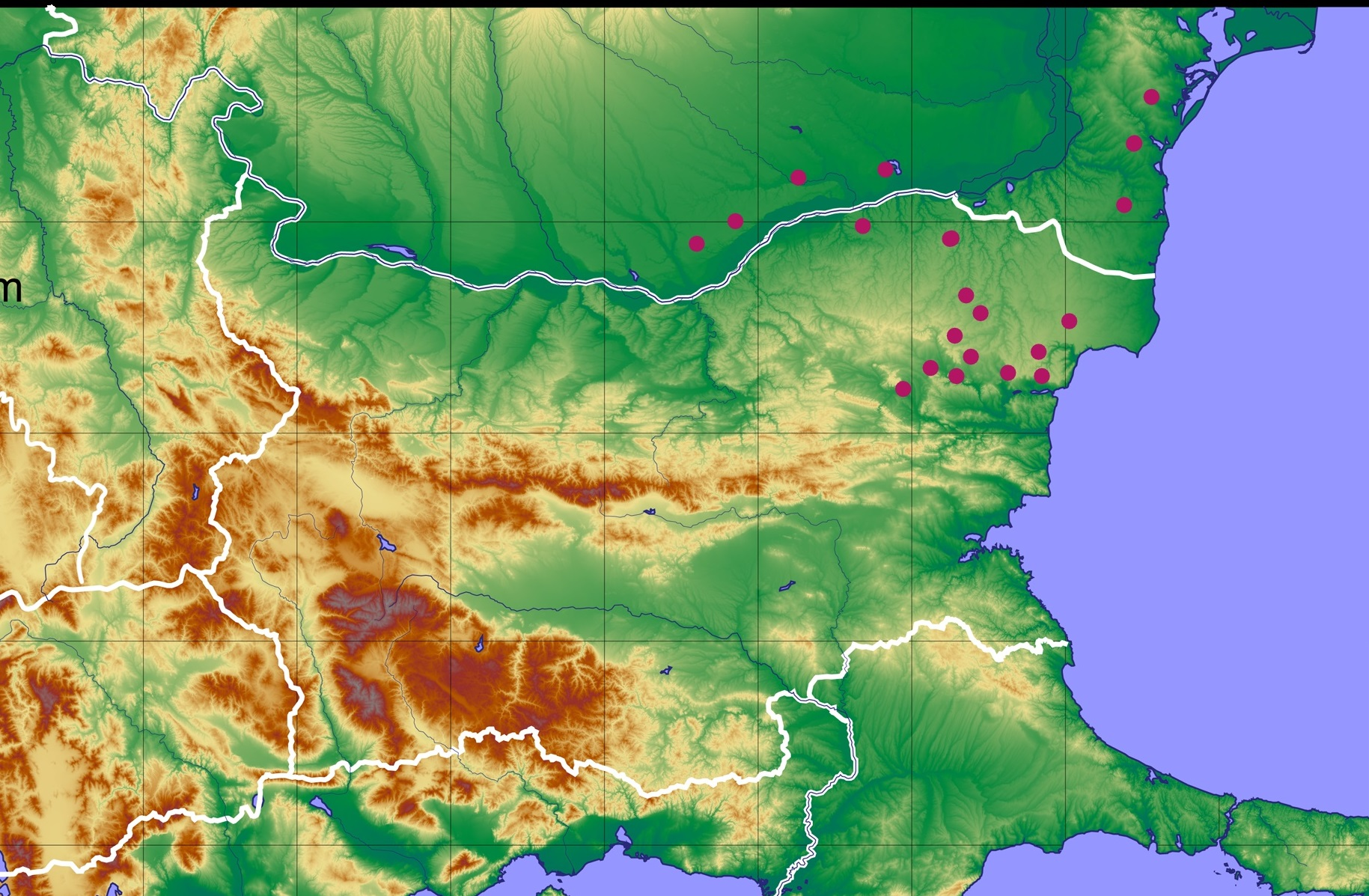 Map of the Bulgar necropolises on the Lower Danube (8-9AD.) Based on Map of the Proto-Bulgarian necropolises on the Lower Danube (VIII-IX cc.) from the English summary of the monograph of the Bulgarian historian Dimitar Dimitrov on the Early Medieval history of the Proto-Bulgarians in the lands north of the Black Sea (D.Dimitrov. Prabylgarite po severnoto i zapadnoto Chernomorie, Varna, 1987). Proto-Bulgarian Necropolises on the Lower Danube.